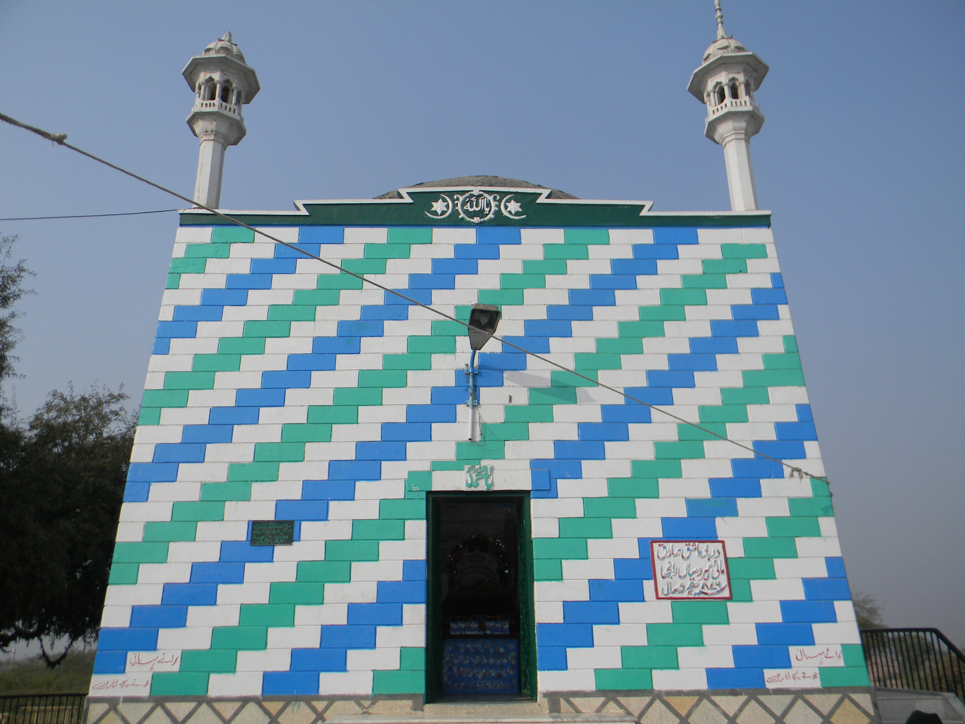 Heer Ranjha's tomb in Jhang, Punjab, Pakistan/